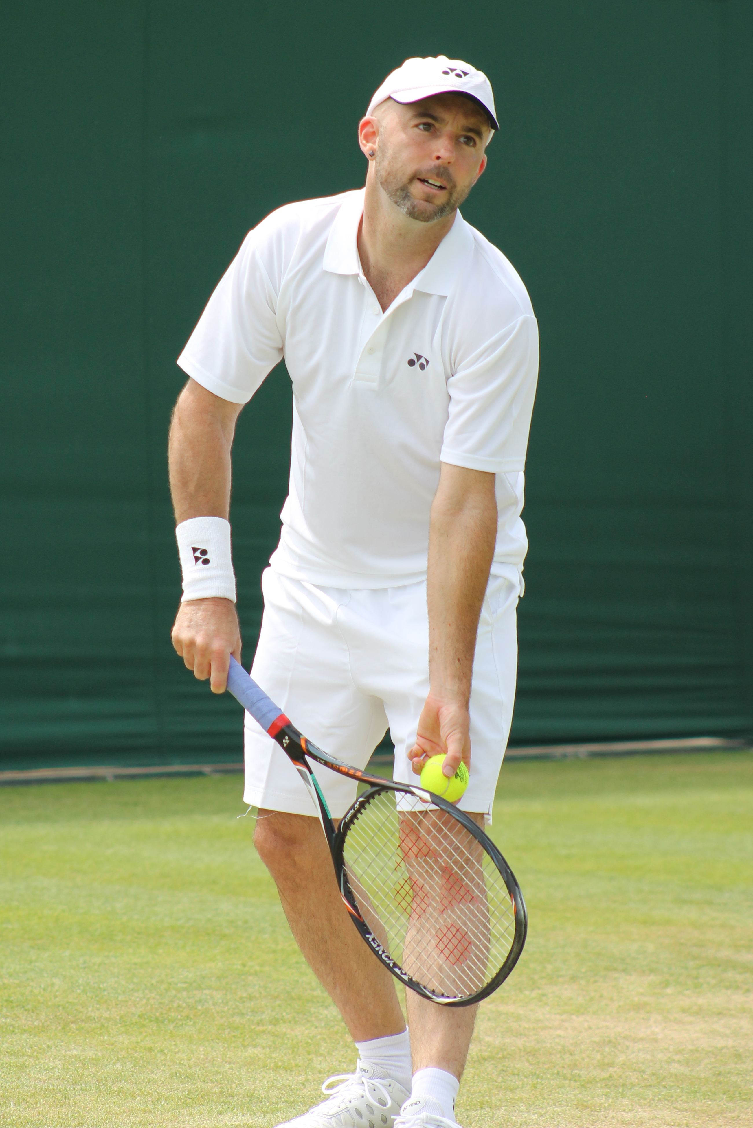 Jamie Delgado playing in 1st Round of the Mens Doubles at Wimbledon 2013, Court 5, on 29 June 2013; partner was Matthew Ebden (AUS); opponents Leander Paes (IND) & Radek Stepanek (CZE)